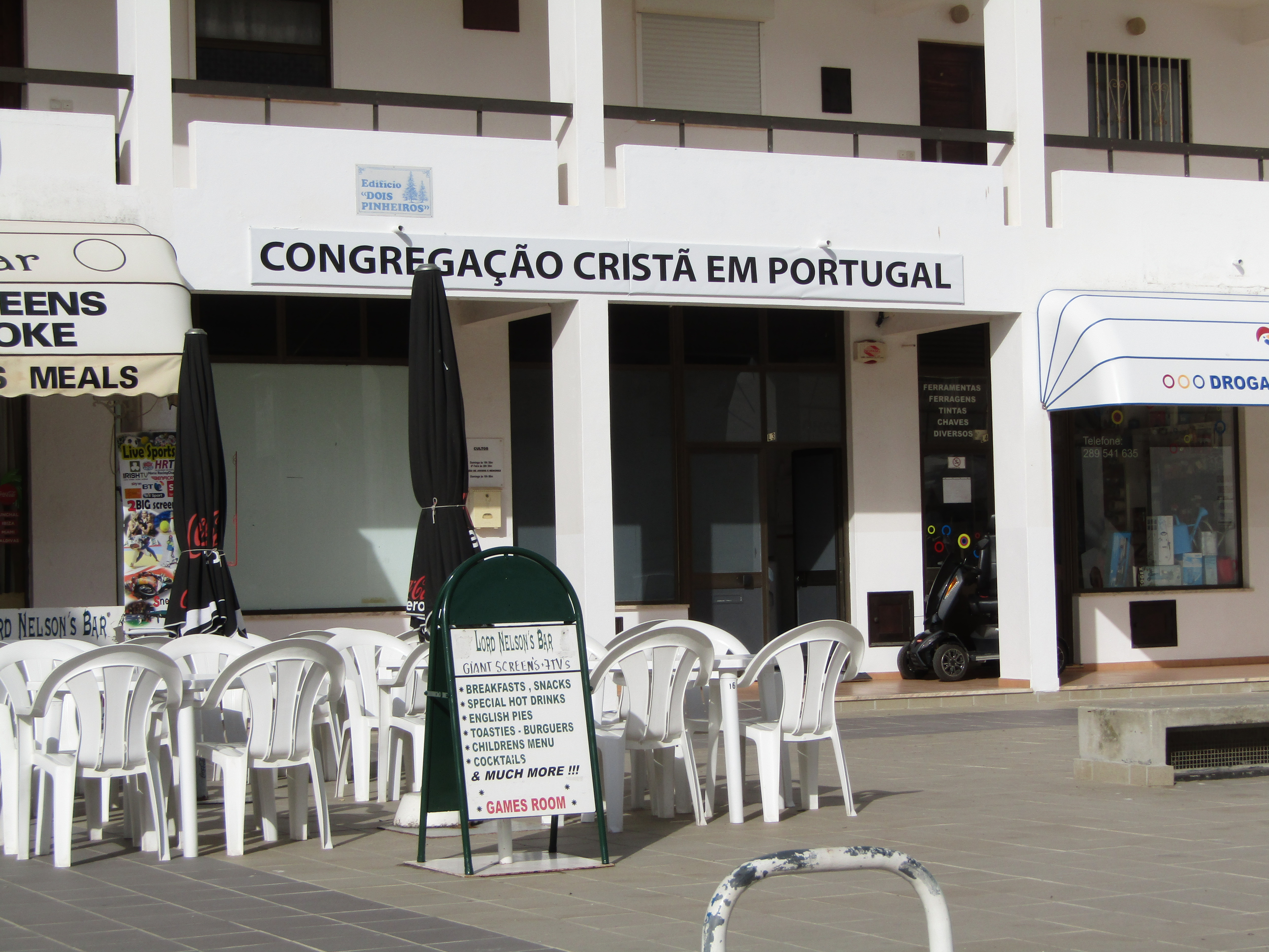 The Church and centre of the Christian Congregation of Portugal is located in Rua Mouzinho de Albuquerque within the neighbourhood of Montechoro within the city of Albufeira, Algarve, Portugal.